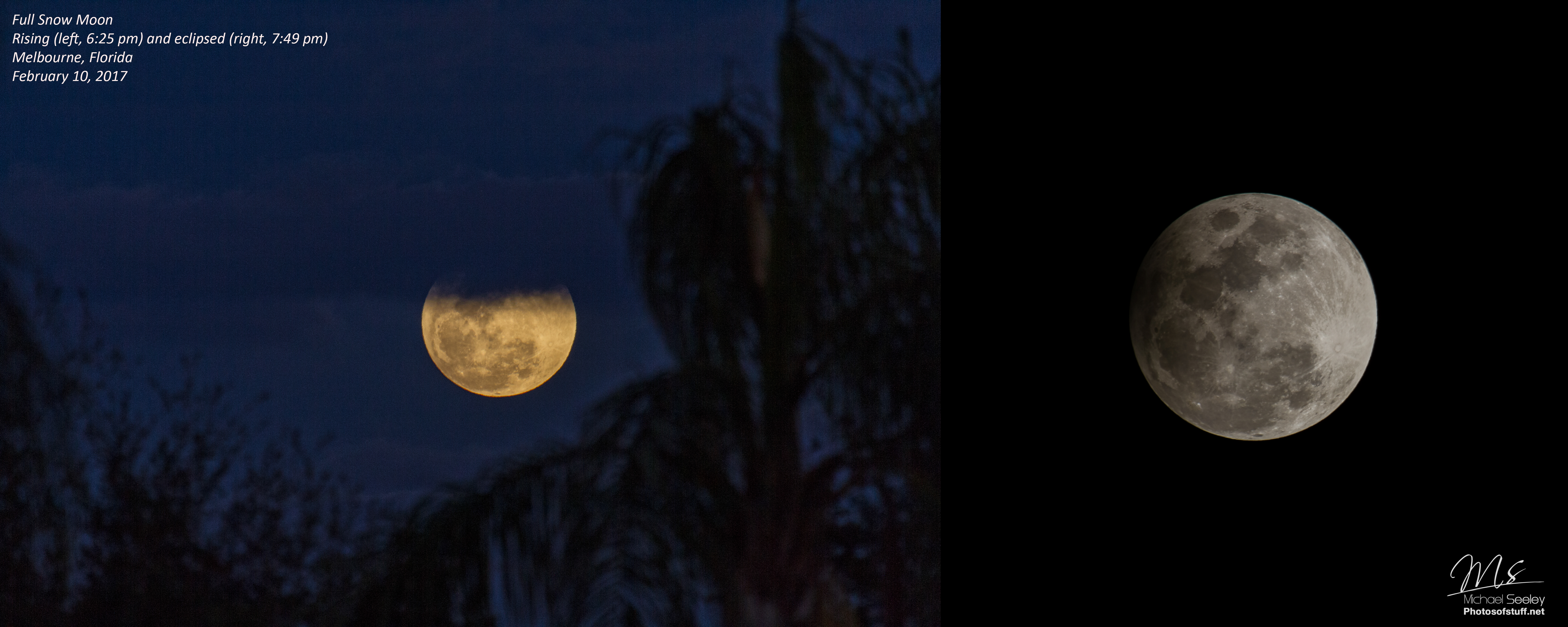 I was going to do a series, showing the dimming of the left side of the moon as the #LunarEclipse progressed, but it is not really that dramatic. So here is a quick 2-shot series showing the #FullSnowMoon (left) rising through some clouds not long after sunset at 6:25 pm and then the eclipsed moon (R) at 7:49 pm. Note that the left shot is shot at 400mm, while the right shot is a bit underexposed to bring out the shadow caused by the eclipse, and it is a cropped 400mm shot. Seen from Melbourne, Florida on February 10, 2017.